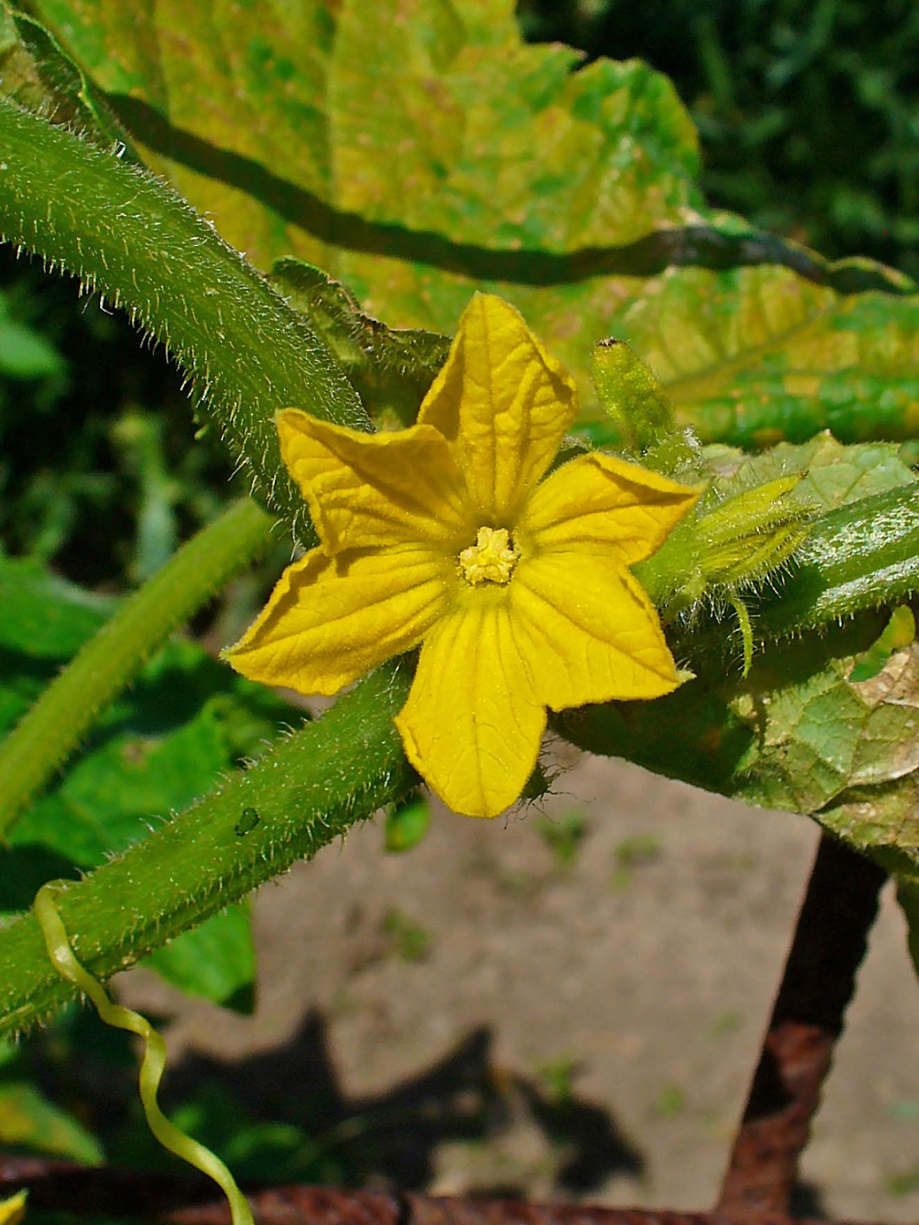 Cucumis sativus, Cucurbitaceae, Cucumber, flower. The fruit is used in homeopathy as remedy: Cucumis sativus (Cucum.)